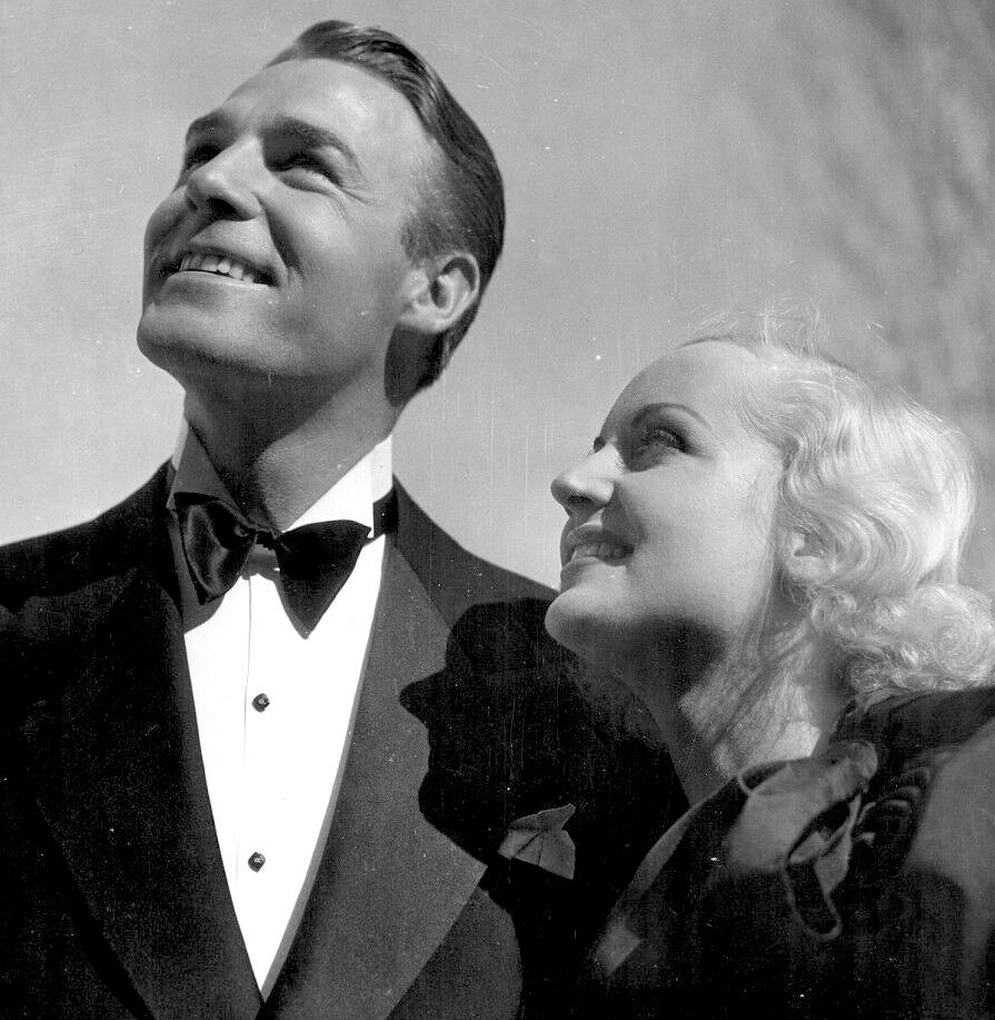 Randolph Scott and Carole Lombard in Supernatural publicity photo, 1933